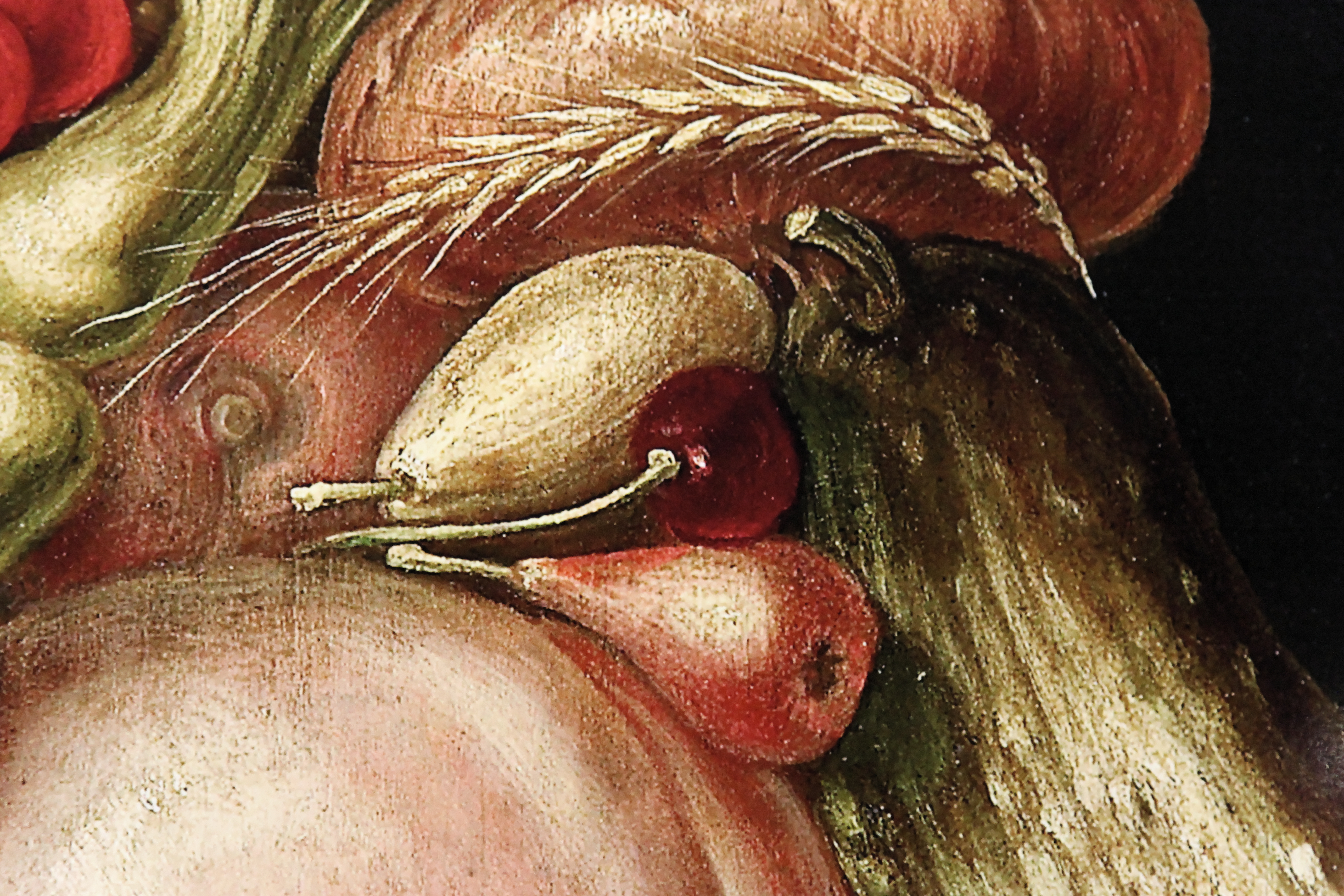 Summer by Arcimboldo, "Der schöne Schein" exhibition of replicas of well-known artwork in the Gasometer in Oberhausen